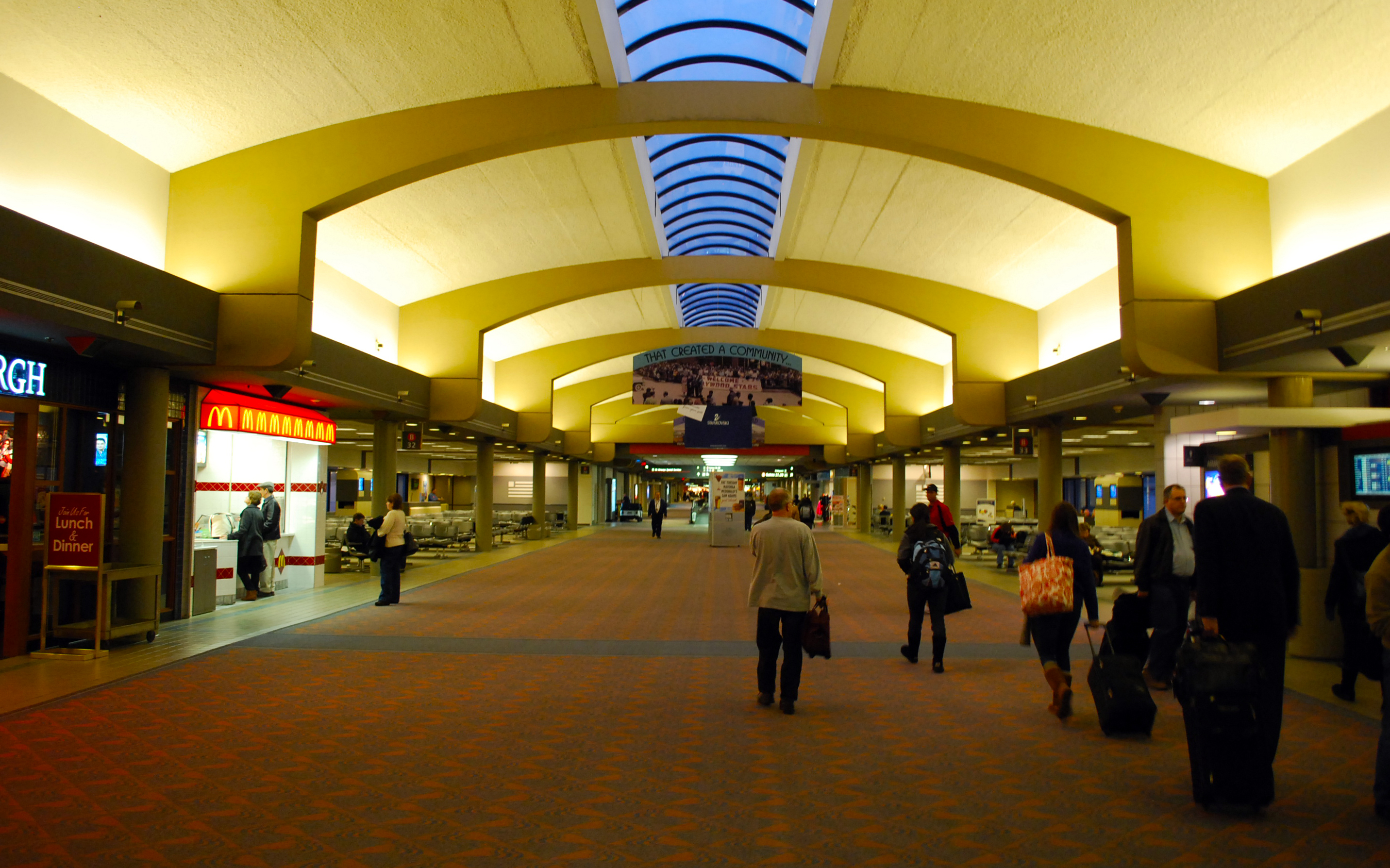 Concourse B of the Airside Terminal of Pittsburgh International Airport in January 2010.